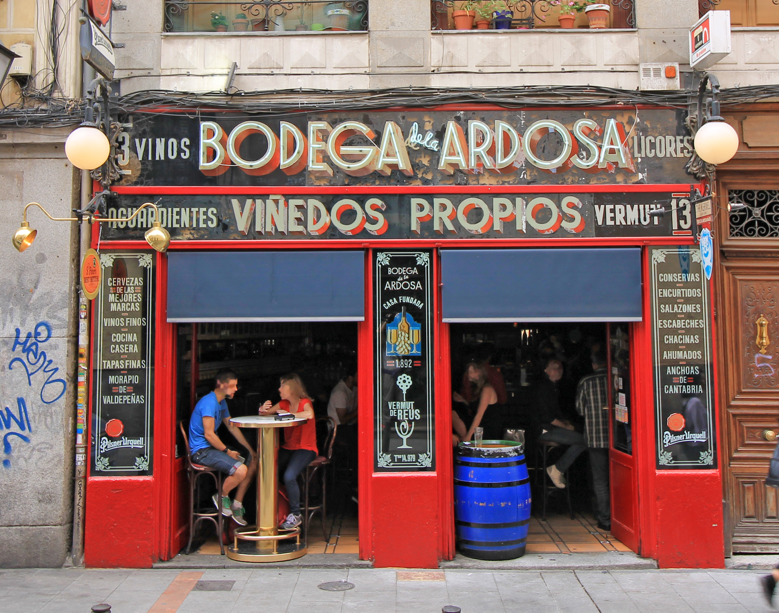 Façade of Bodega de La Ardosa tavern at 13th Calle de Colón (street) in Madrid (Spain).